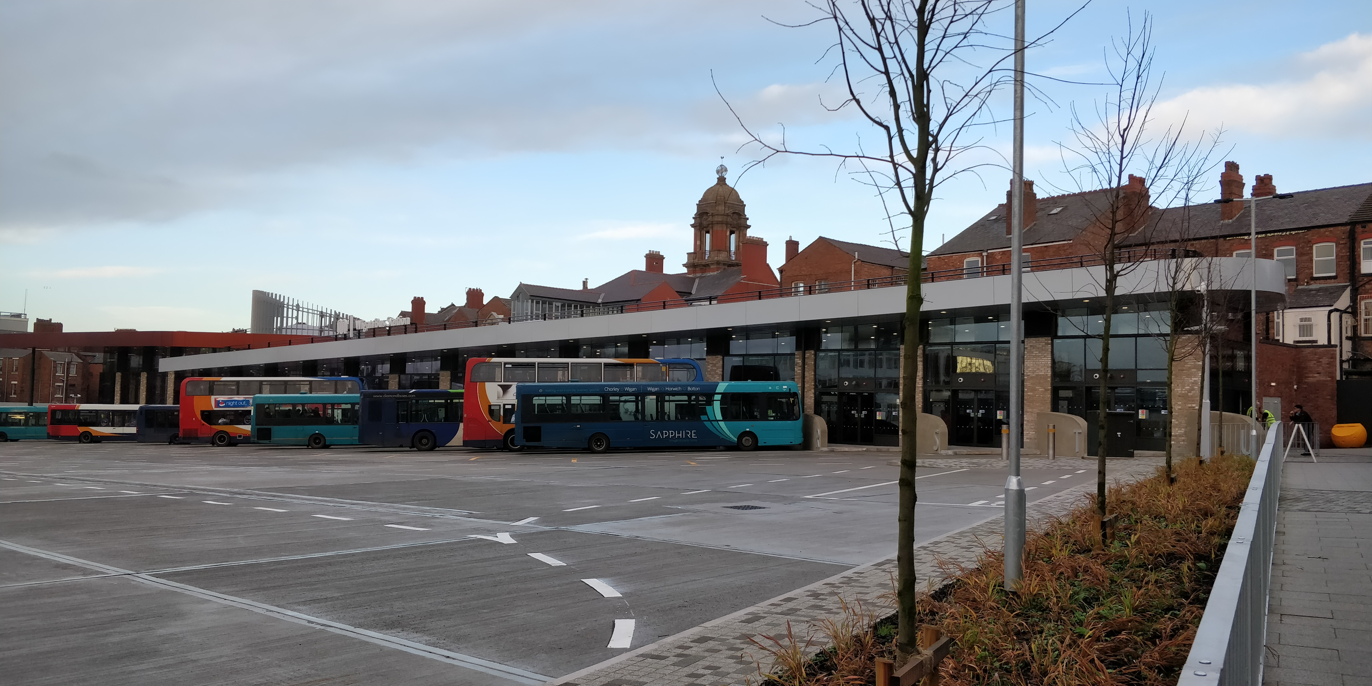 The bus stands at the new redeveloped bus station in Wigan, opened in October 2018